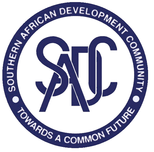 OFficial logo of SADC